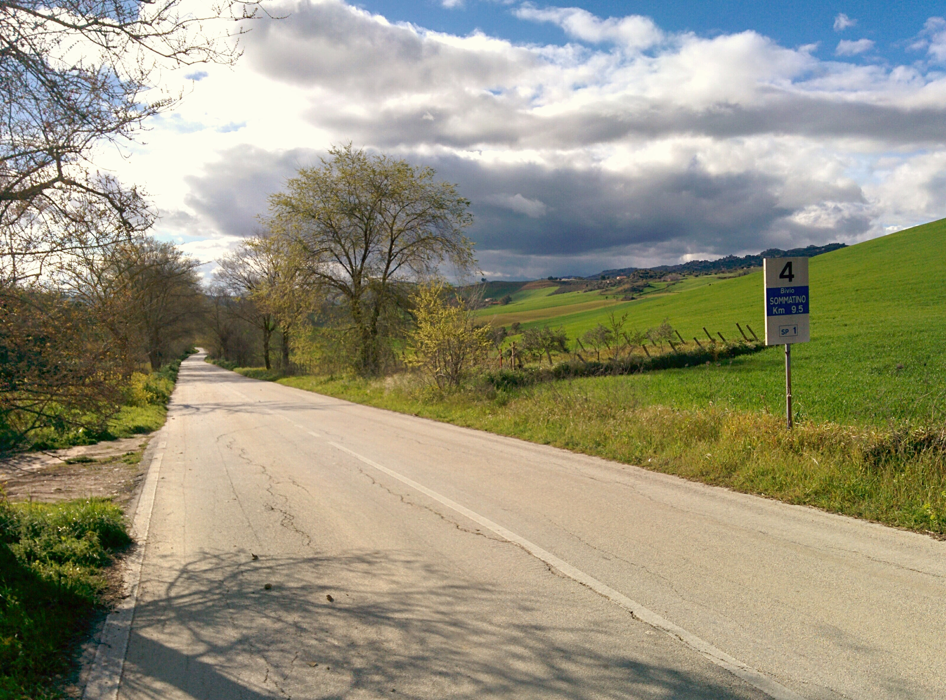 Fourth kilometre milestone in road strada provinciale 1 (province of Caltanissetta) in Bifaria (Caltanissetta).